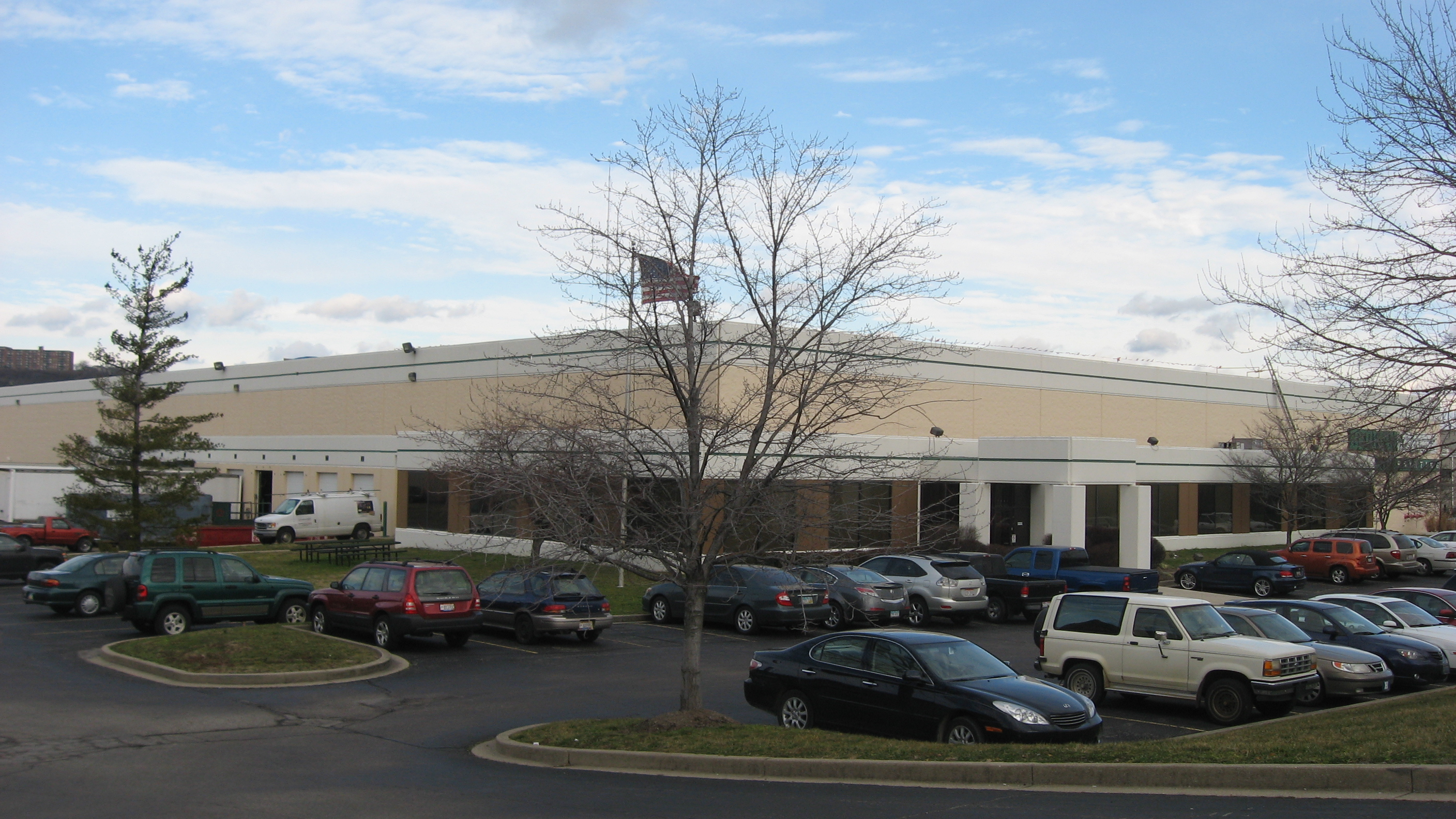 Overview of Berman Printing, located at 1441 Western Avenue in the Queensgate neighborhood of Cincinnati, Ohio, United States. This lot was formerly the location of the Ohio National Guard Armory; built in 1886, it is listed on the National Register of Historic Places despite having been destroyed.